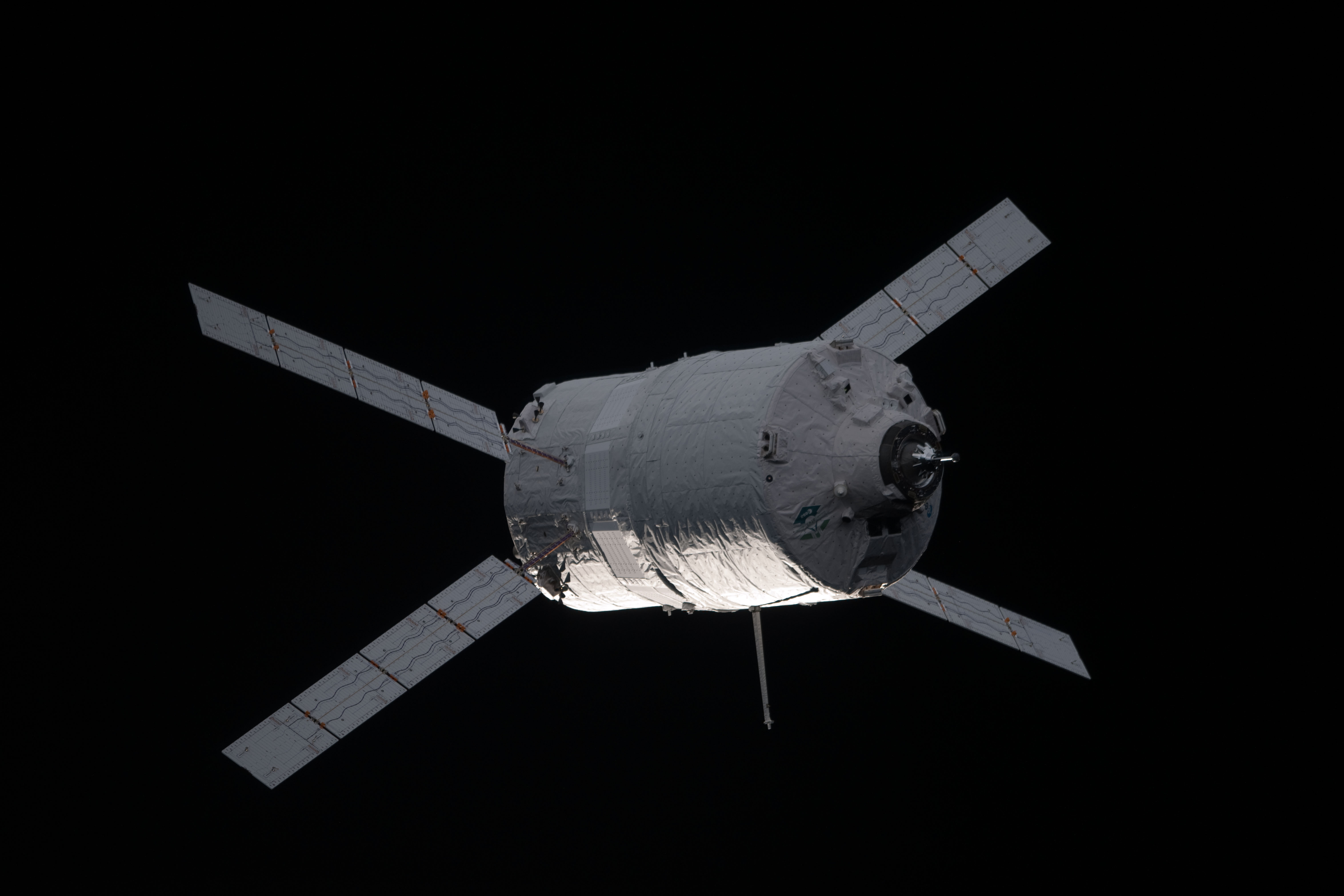 European Space Agency's "Edoardo Amaldi" Automated Transfer Vehicle-3 (ATV-3) approaches the International Space Station. The unmanned cargo spacecraft docked to the space station at 6:31 p.m. (EDT) on March 28, 2012, delivering 220 pounds of oxygen, 628 pounds of water, 4.5 tons of propellant, and nearly 2.5 tons of dry cargo, including experiment hardware, spare parts, food and clothing.